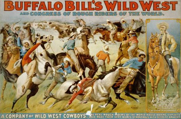 Buffalo Bill's Wild West Show and Congress of Rough Riders of the World - Circus poster showing cowboys rounding up cattle and portrait of Col. W.F. Cody on horseback.